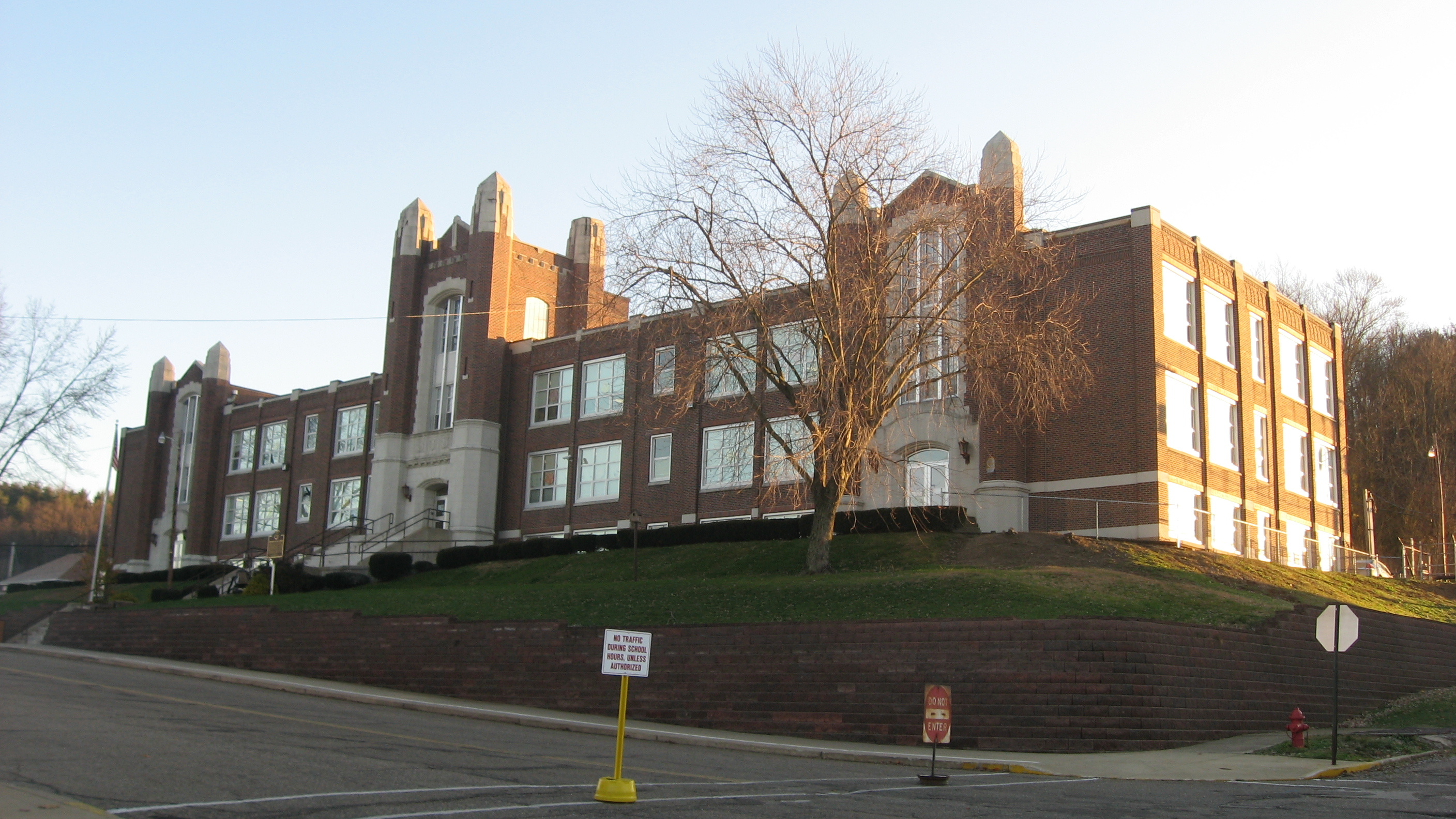 Front and southern side of the Dennison High School, located at 220 N. Third Street in Dennison, Ohio, United States. Built in 1928, it is listed on the National Register of Historic Places.